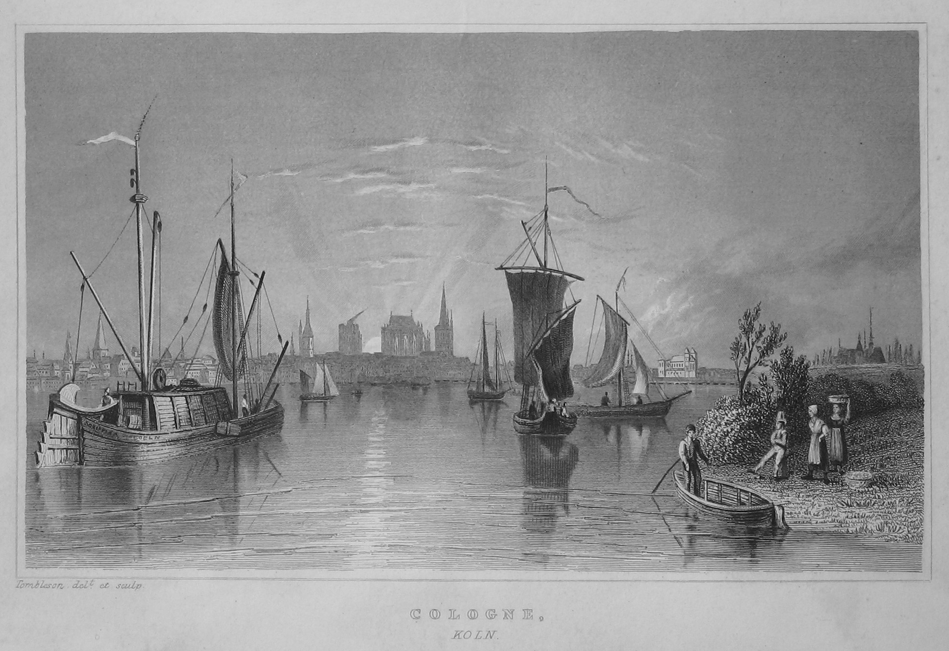 from "Views of the Rhine"